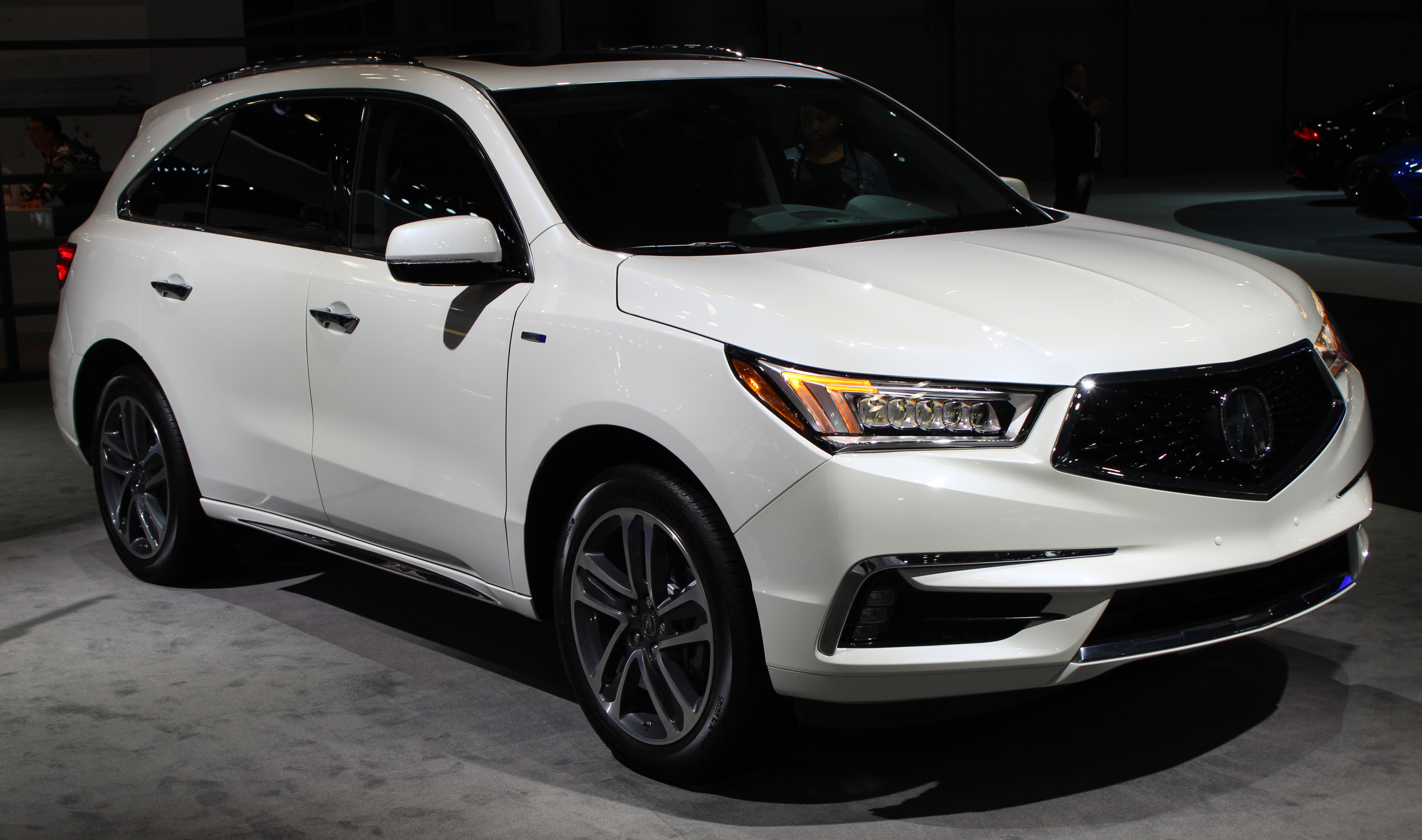 An Acura MDX photographed during the 2019 New York International Auto Show, in Hudson Yards, Manhattan, NYC